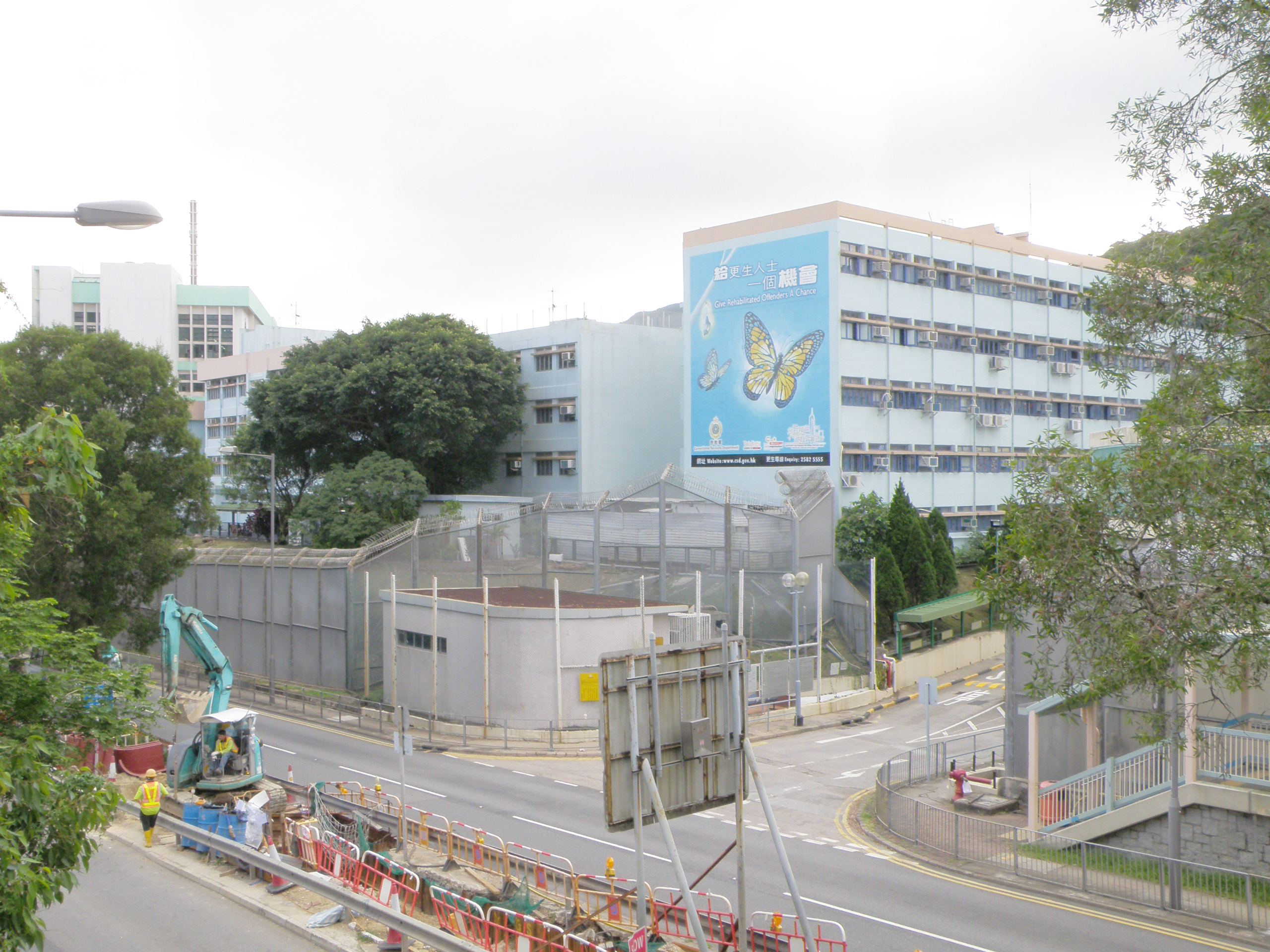 Prison in Pik Uk, Hong Kong.